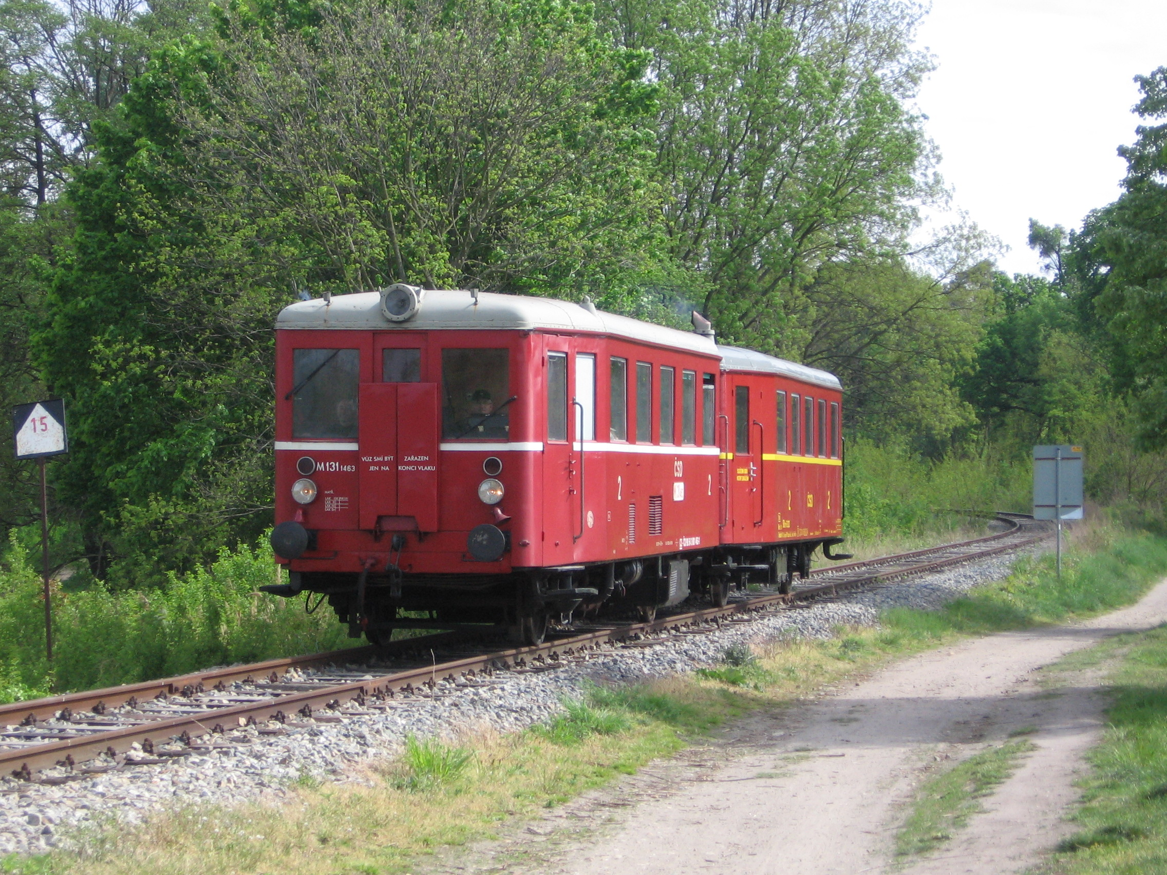 Train stop Lednice rybníky with motor coach M 131.1463 with trailer class BDlm